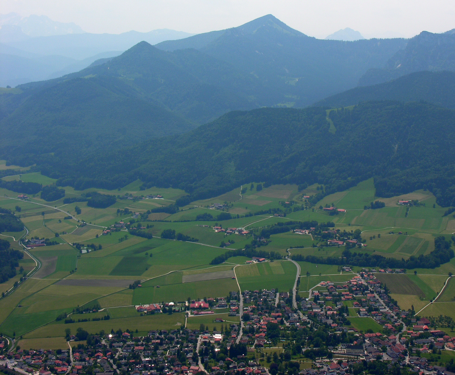 Germany, Bavaria, Bernau am Chiemsee